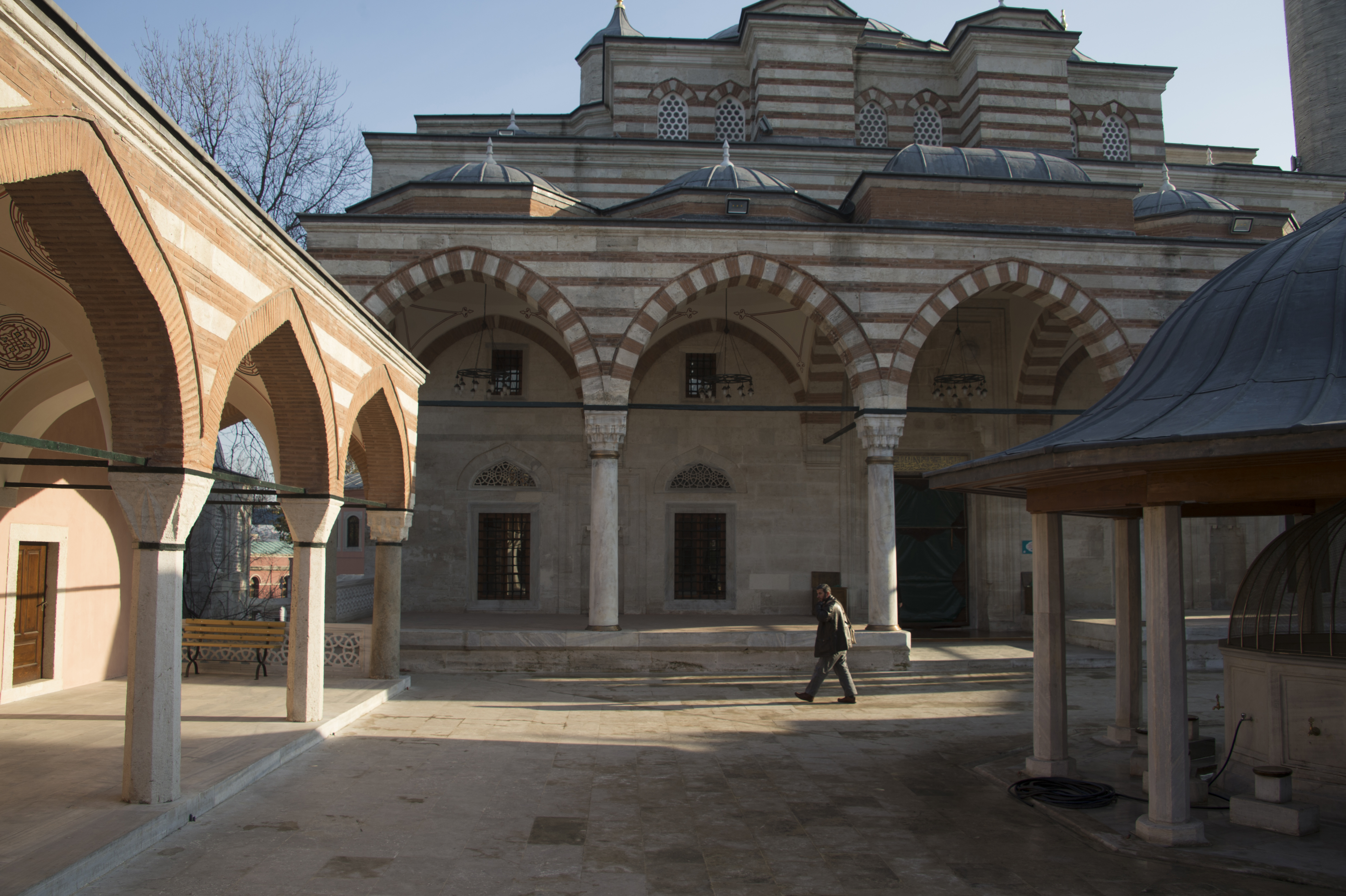 The Strolling through Istanbul guide has it the Zal Mahmut Paşa mosque is the "grandest and most interesting mosque in Eyüp, a mature but unique work of Sinan." Zal "was a rather unsavoury character, when in 1553 Süleyman had his son Mustafa put to death, it was Mahmut (who got his forename Zal from that of a Persian hero famous for his Herculean strength) who overcame the young prince’s resistance and strangled him. Later he married the Princess Şah Sultan, sister of Selim the Sot, as a reward, it is said for having smoothed that prince’s path to the throne by the elimination of his brother. In 1580 Zal and his wife died in a single night. The külliye has an awkard form because of the available grounds. They slope, so under the mosque there is a vaulted substructure, containing rooms for a lower medrese (there are two medreses, on the picture a side of the higher one). In the lower grounds there is a mausoleum for the founder.